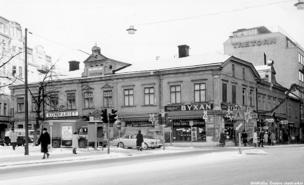 Burenstam's house at Järntorget, Örebro, Sweden